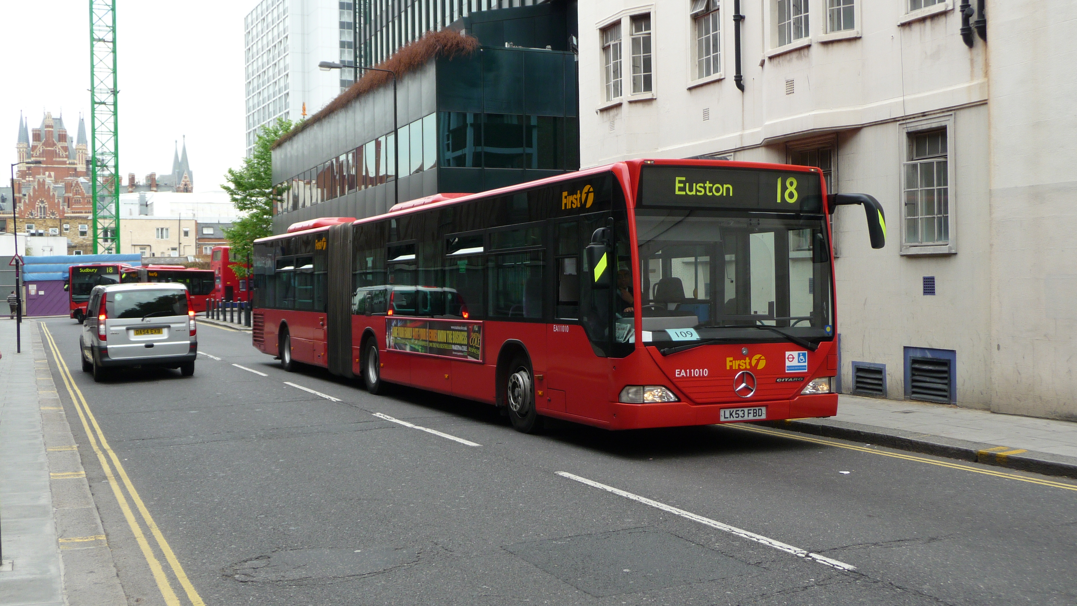 First London EA11010 (LK53 FBD), a Mercedes-Benz Citaro, at Euston, London.